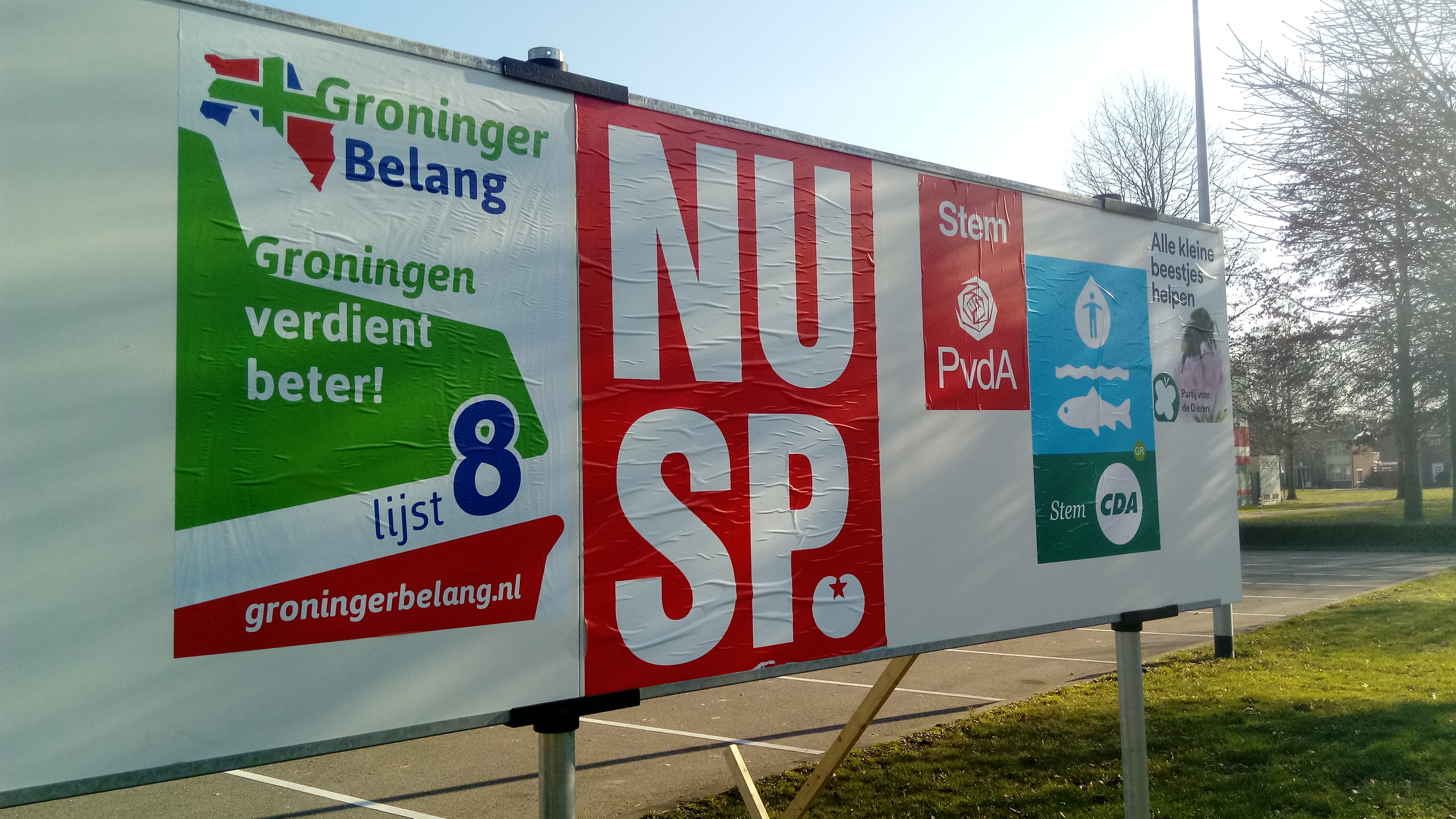 A billboard containing election posters for the Dutch provinces elections 2019 in the Groninger village of Oude Pekela.